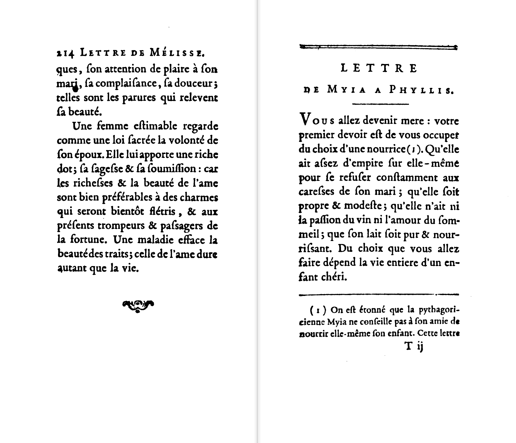 Page-spread from "Collection des moralistes anciens" printed by François-Ambroise Didot in 1782—1783. Here is volume 10.